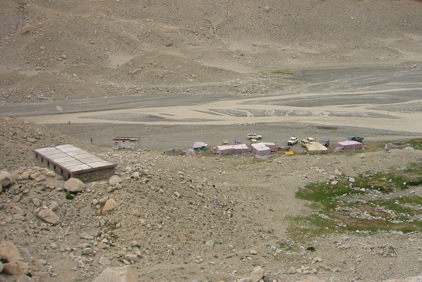 A view of Everest North (Tibet-side) Base Camp looking west, August 3, 2002. The permanent structure at left is for mountain climbers, central-left structure is for pit toilets, while the temporary wood-frame, plastic tarpaulin-covered structures below and right are for other visitors and support people. Author: Sean Geiger. Photo taken by author 2002-08-03 with a Canon Elph Powershot S110.